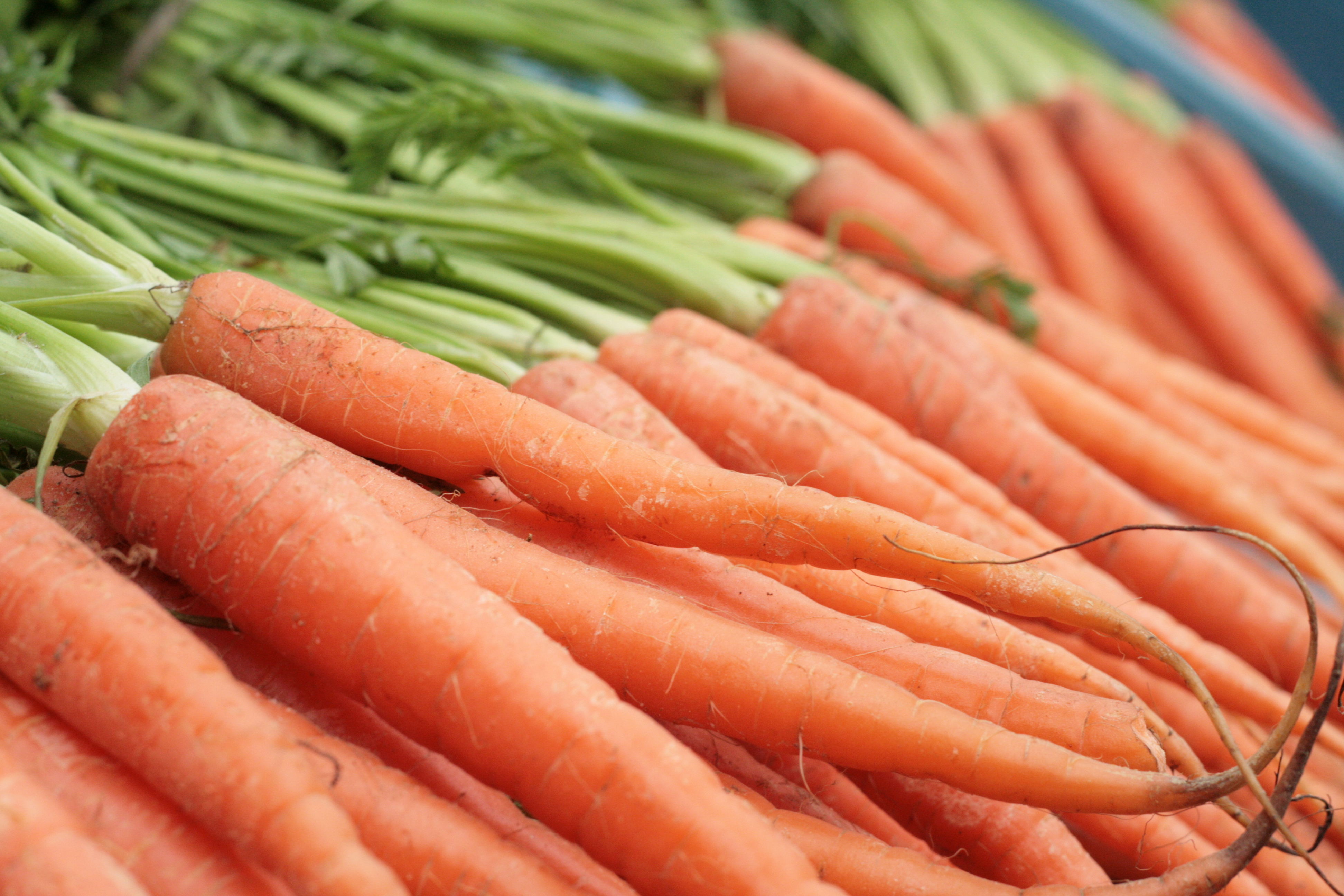 Carrots on display at local greengrocer